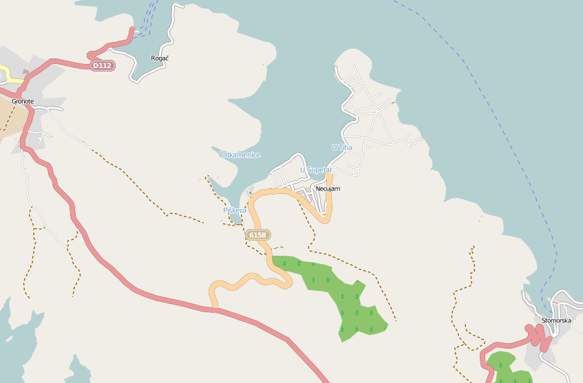 This map may be incomplete, and may contain errors. Don't rely solely on it for navigation.